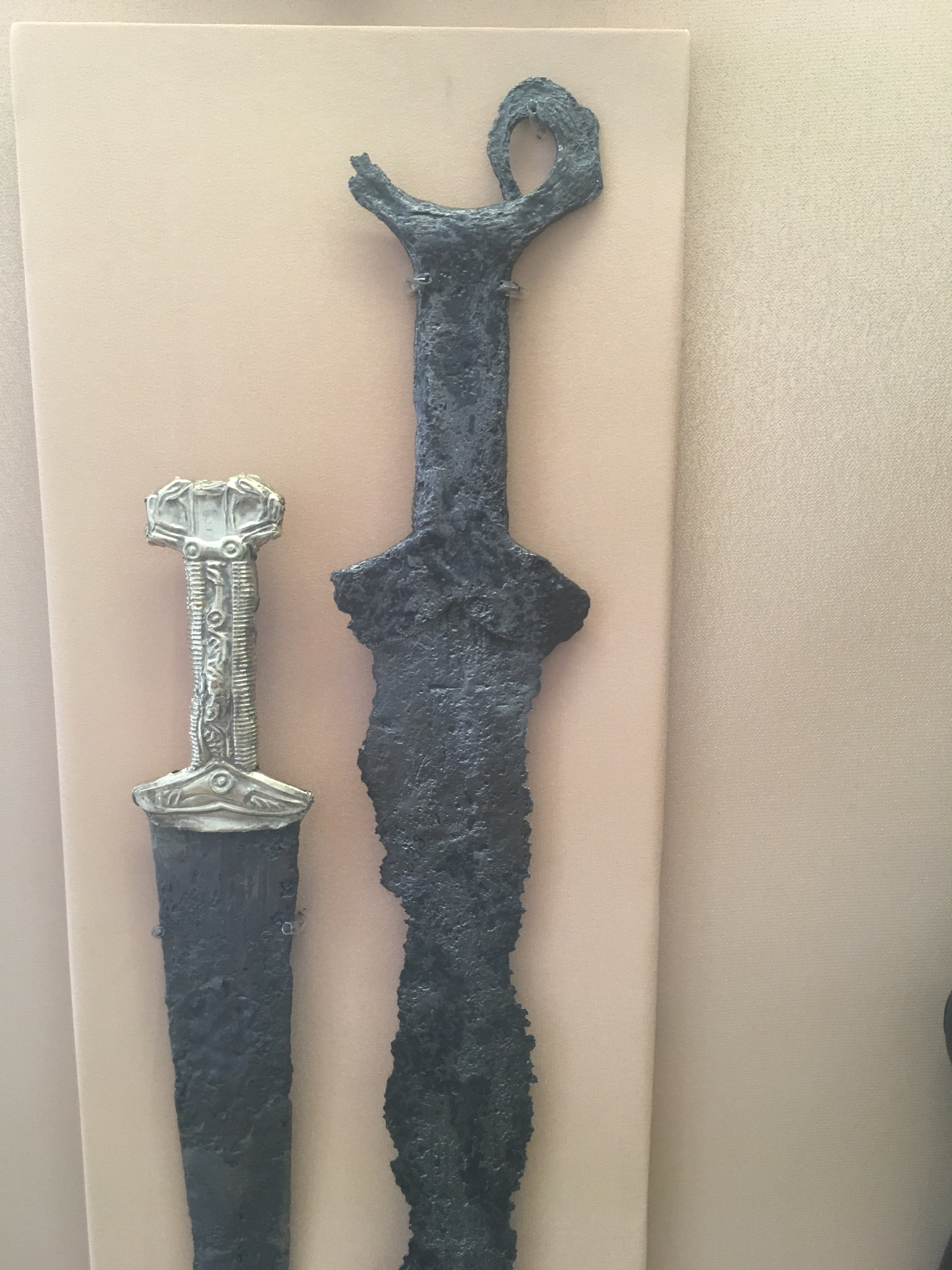 Sword with a gold Handle form Bilsk Hill Fort, National Museum of the History of Ukraine, Kyiv